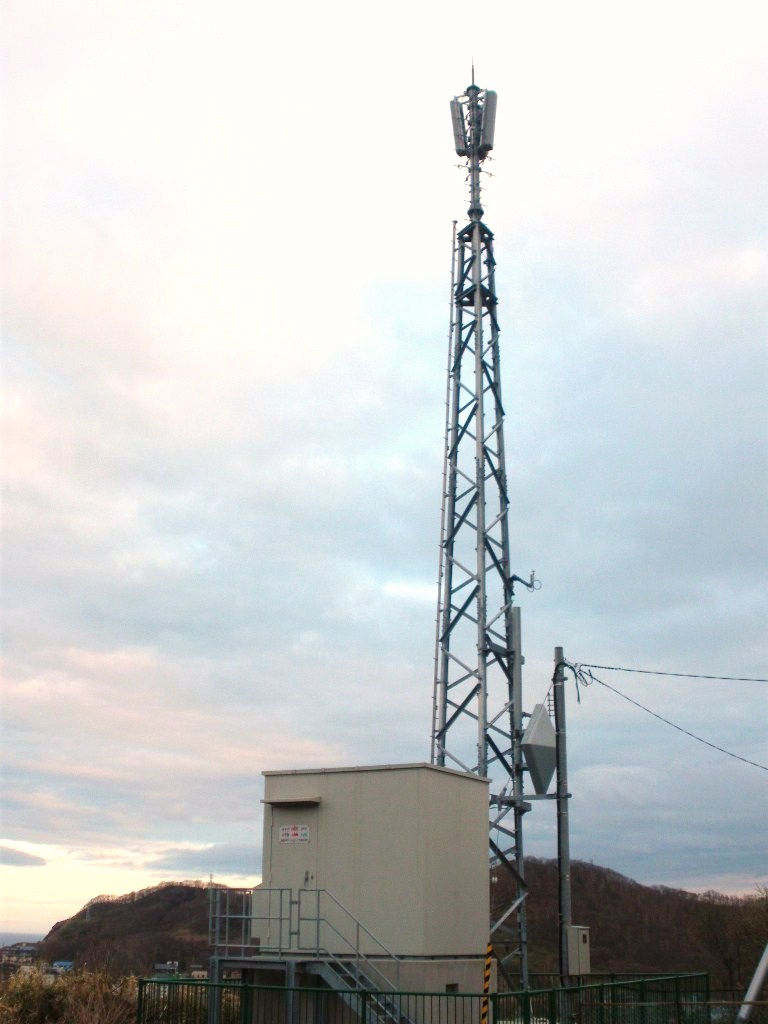 Muroran-Bokoi digital television transmitting station in Muroran, Hokkaido, Japan